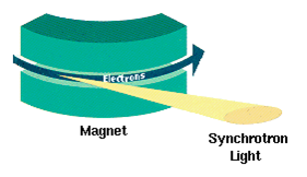 syncrotron radiation